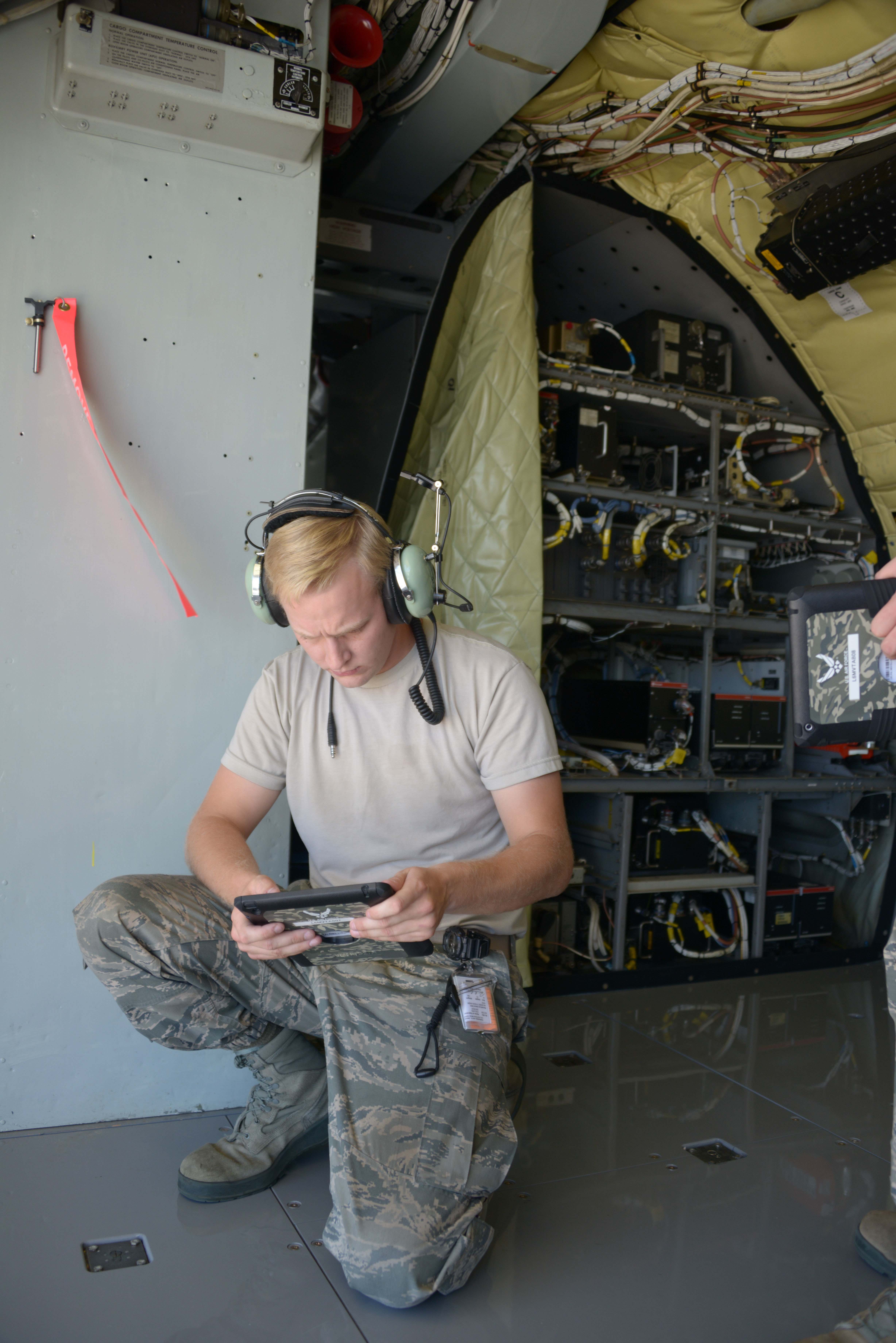 Senior Airman Devin Collins, a communication navigation specialist with the 134th Air Refueling Wing, consults maintenance technical orders on a mobile device during routine maintenance of a KC-135 Stratotanker here during August drill. TOs used to be kept on several books that airman would carry around, but technology has streamlined the process. (U.S. Air Force photo by Tech. Sgt. Jonathan Young) Unit: 134th Air Refueling Wing DVIDS Tags: refueling; KC135; maintenance; technical orders; ipad; TOs; mobile tablet